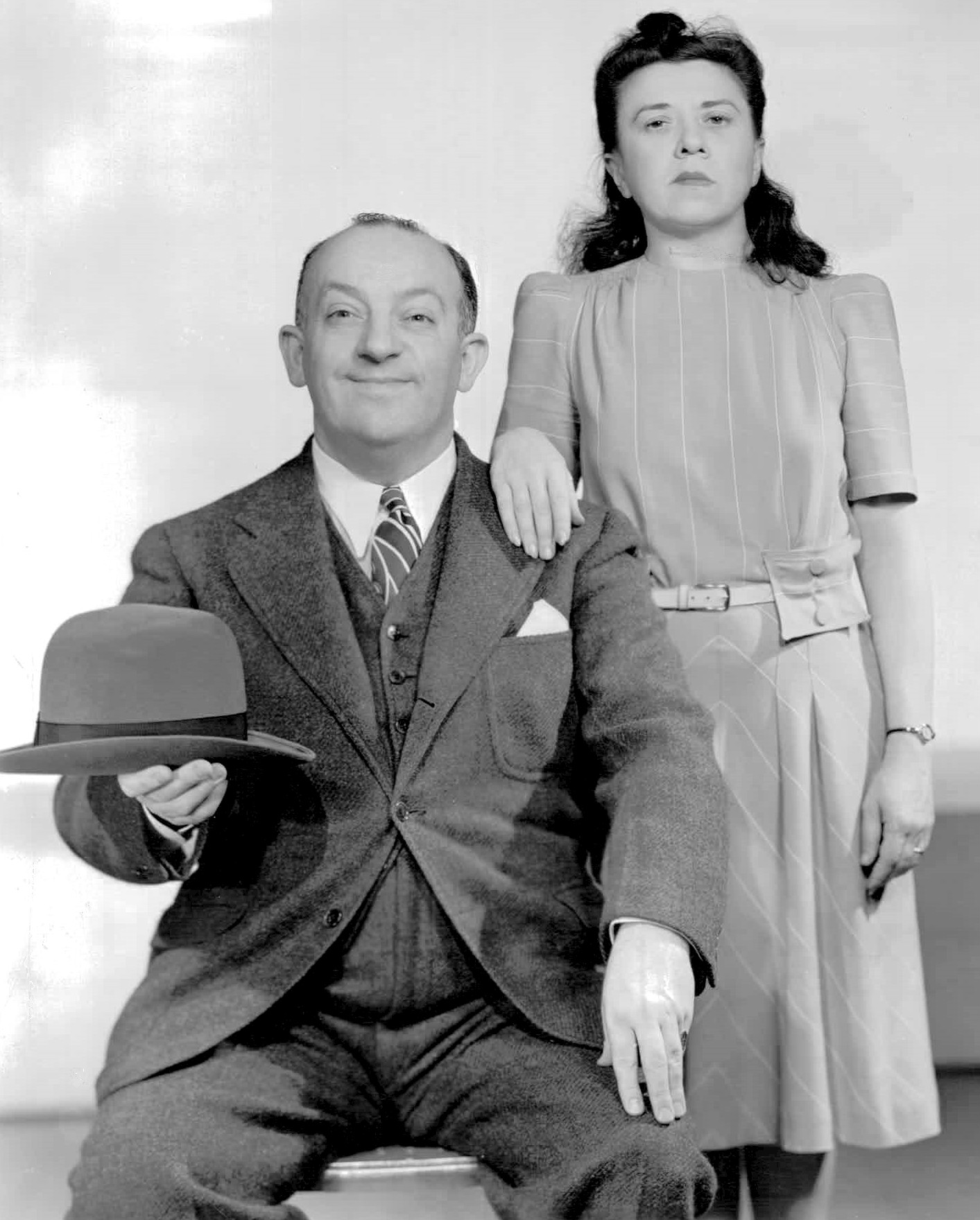 Photo of radio performers Minerva Pious and Charlie Cantor. Pious became well known for her character of Mrs. Nussbaum on Fred Allen's radio show.